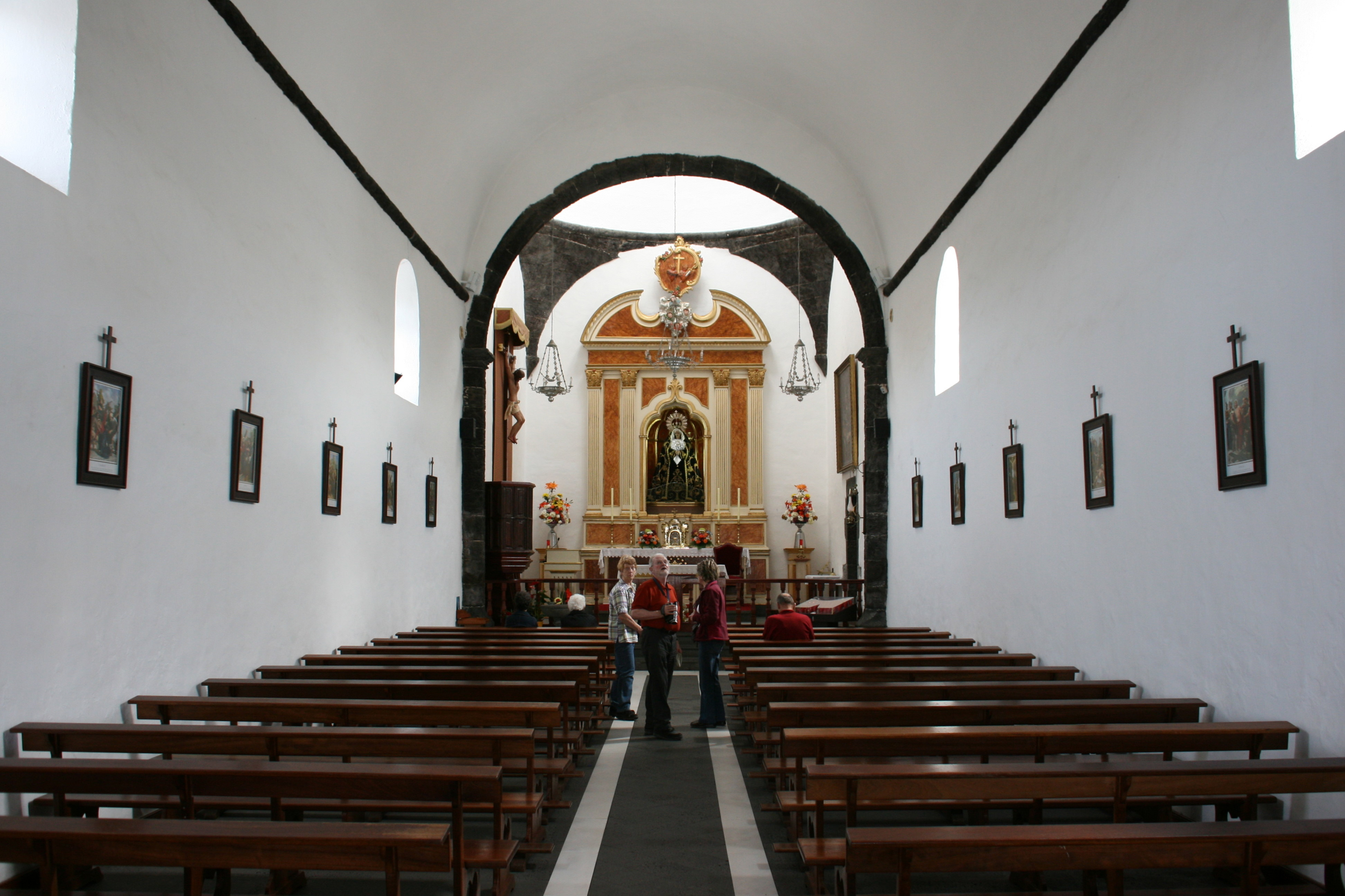 Nuestra Señora de Los Dolores, Calle Virgen de Los Dolores in Mancha Blanca, Tinajo, Lanzarote, Canary Islands